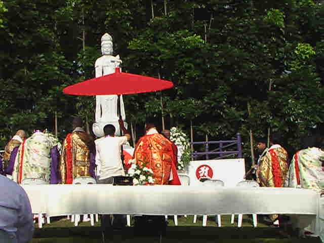 Koyasan Shingon Buddhist Shrine at Clark Field, Pampanga, Philippines